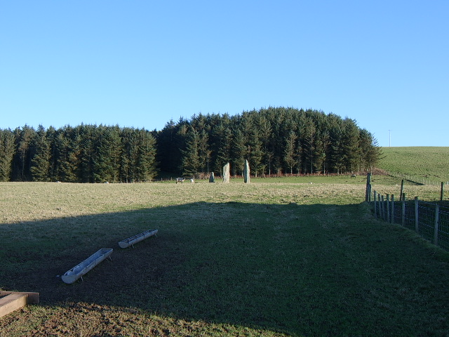 Standing stones at Balochroy, Kintyre